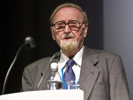 Economist Clive Granger, who won the 2003 Nobel Prize in Economics. Clive Granger: Leica M8, Elmarit M 90/1:2,8 License on Flickr (2011-01-17): CC-BY-SA-2.0 Flickr tags: Clive, Leica M8, Lindau, Lindau Meeting of Nobel Laureats, Nobelpreisträger, Nobelpreisträgertreffen, Ökonom, Noble